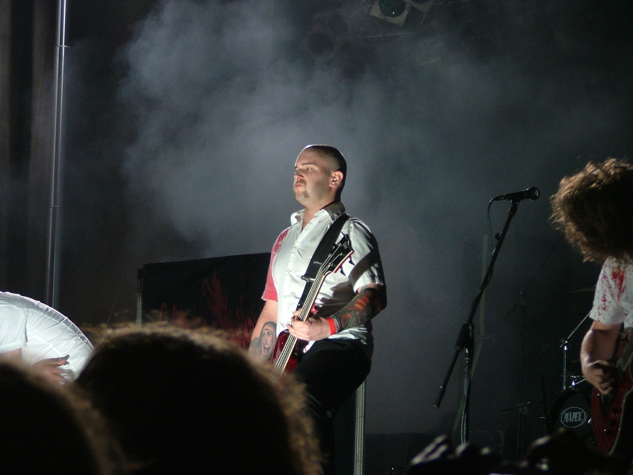 German metalcore band Caliban at the Summer Breeze in Dinkelsbühl